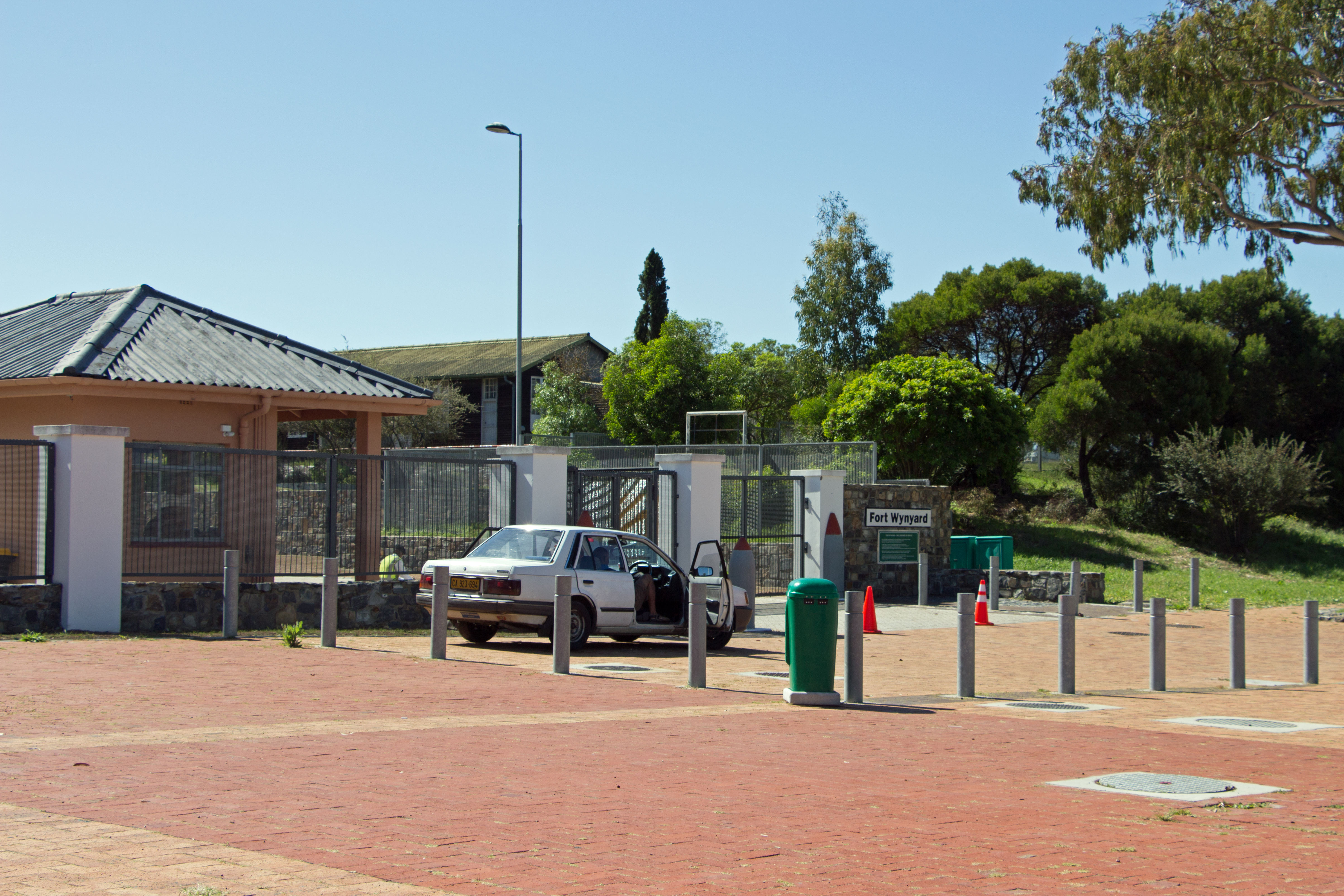 Entrance to Fort Wynyard, Green Point, Cape Town This media shows a South African Protected Site with SAHRA file reference 9/2/018/0001.